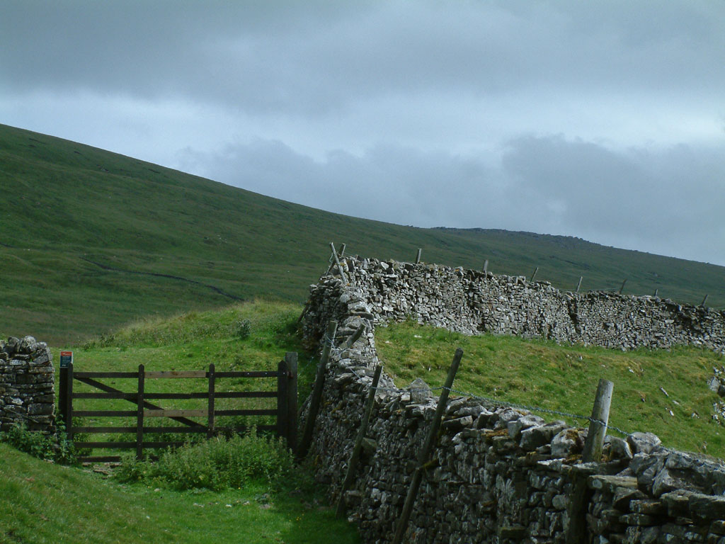 Great Whernside from next to Tor Dyke (built between AD 52 and AD 70 under the instructions of the Brigantian Chief Venutius, as part of a defence system against Roman invasion) near the road between Kettlewell and Coverdale. Photograph by Stephen Dawson, 18 July 2005.